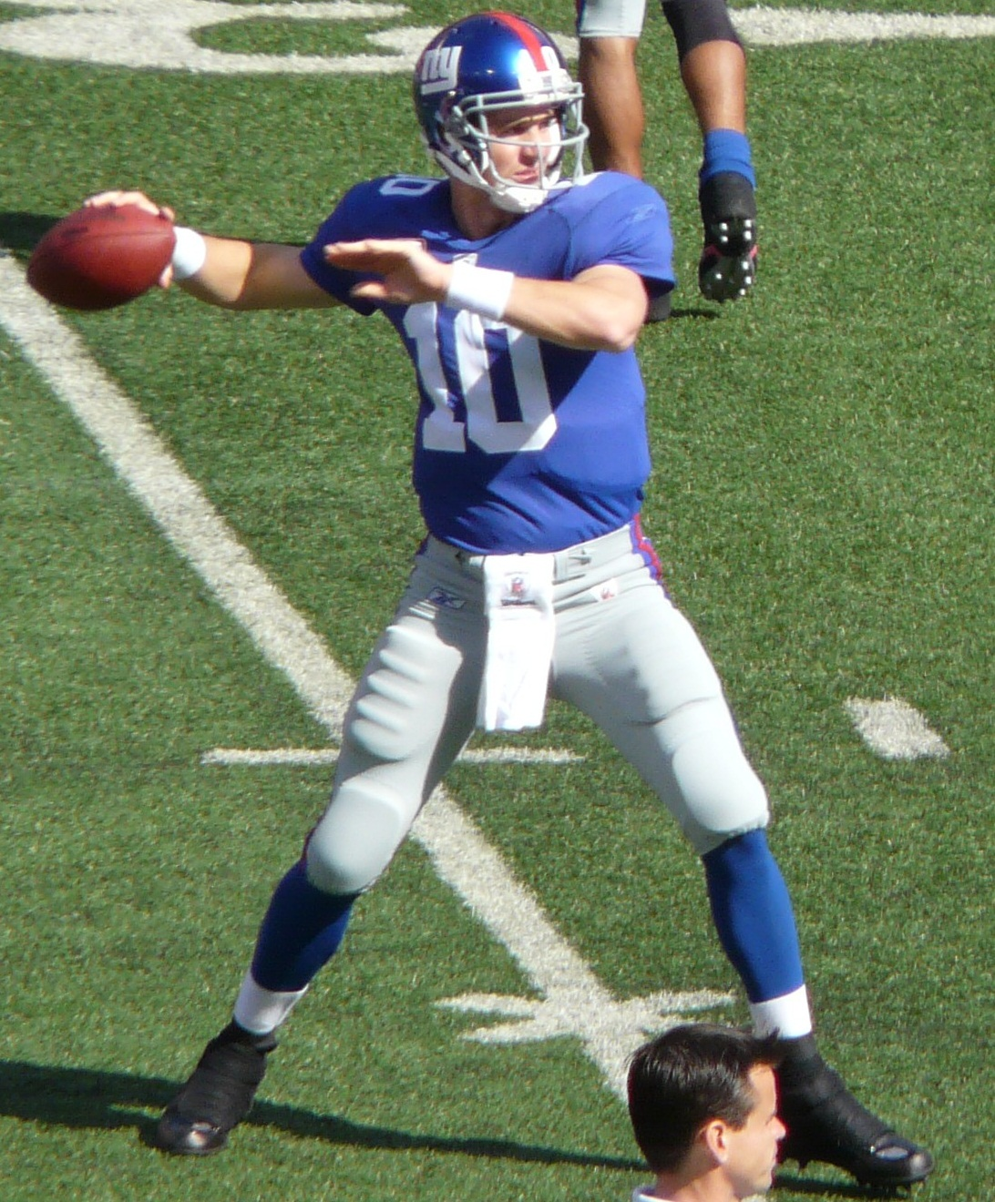 Eli Manning during pre-game warmups in 2009